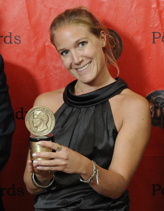 PHOTO CREDIT: ANDERS KRUSBERG / PEABODY AWARDS A Peabody Award for CNN’s Reporting on the Arab Spring showing Arwa Damon (cropped). 71st Annual Peabody Awards Luncheon Waldorf=Astoria Hotel, May 21, 2012